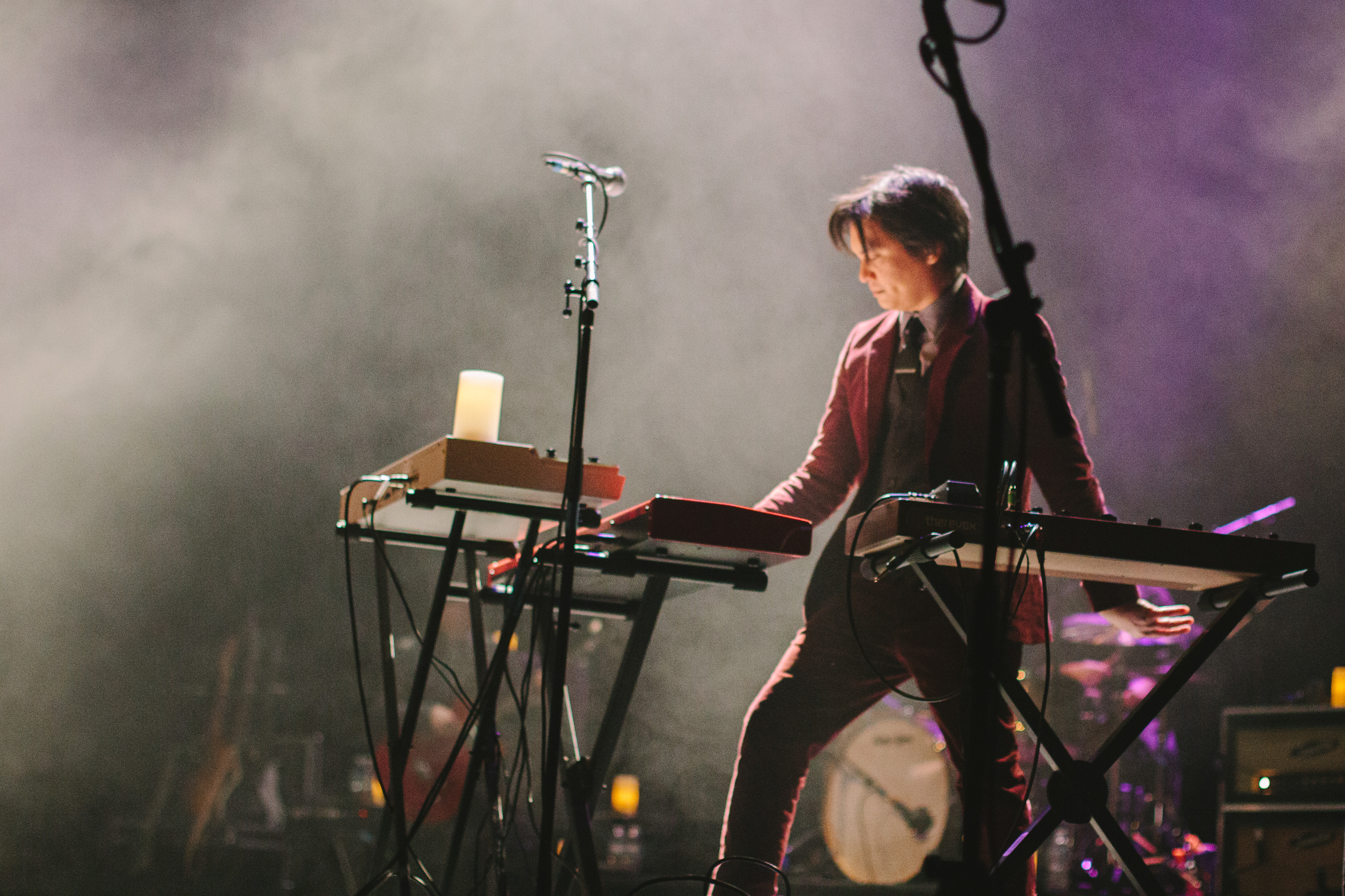 Jason_Isbell-4